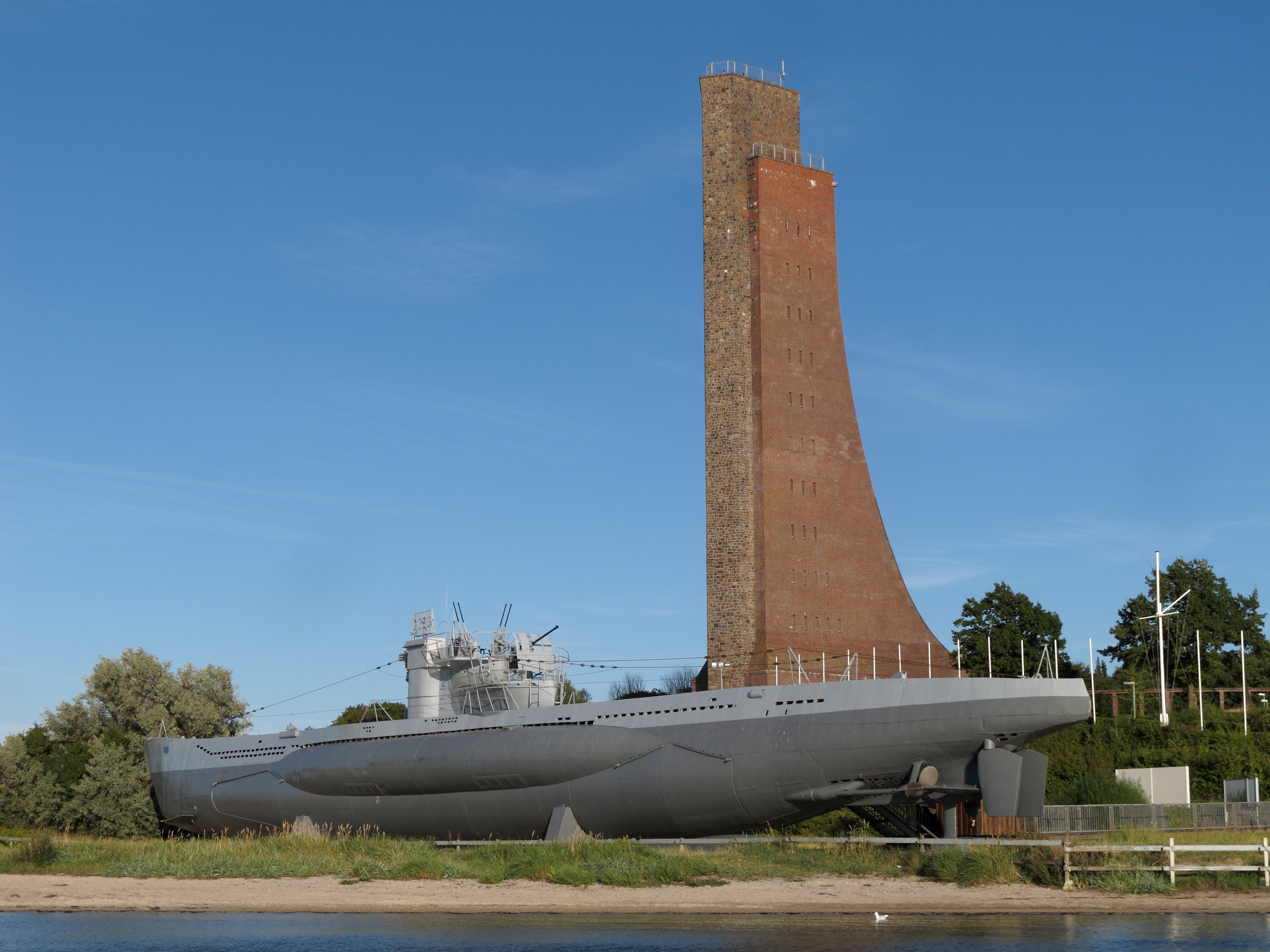 U 995. In the background the Laboe Naval Memorial.